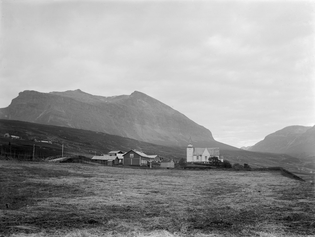 Vang Church in Valdres area./Vang kyrka i Valdres. Location: Vang, Vang Municipality, Valdres, Oppland fylke (county), Norway Photo date: c. 1890? Photographer: Carl Curman Format: Glass plate negative